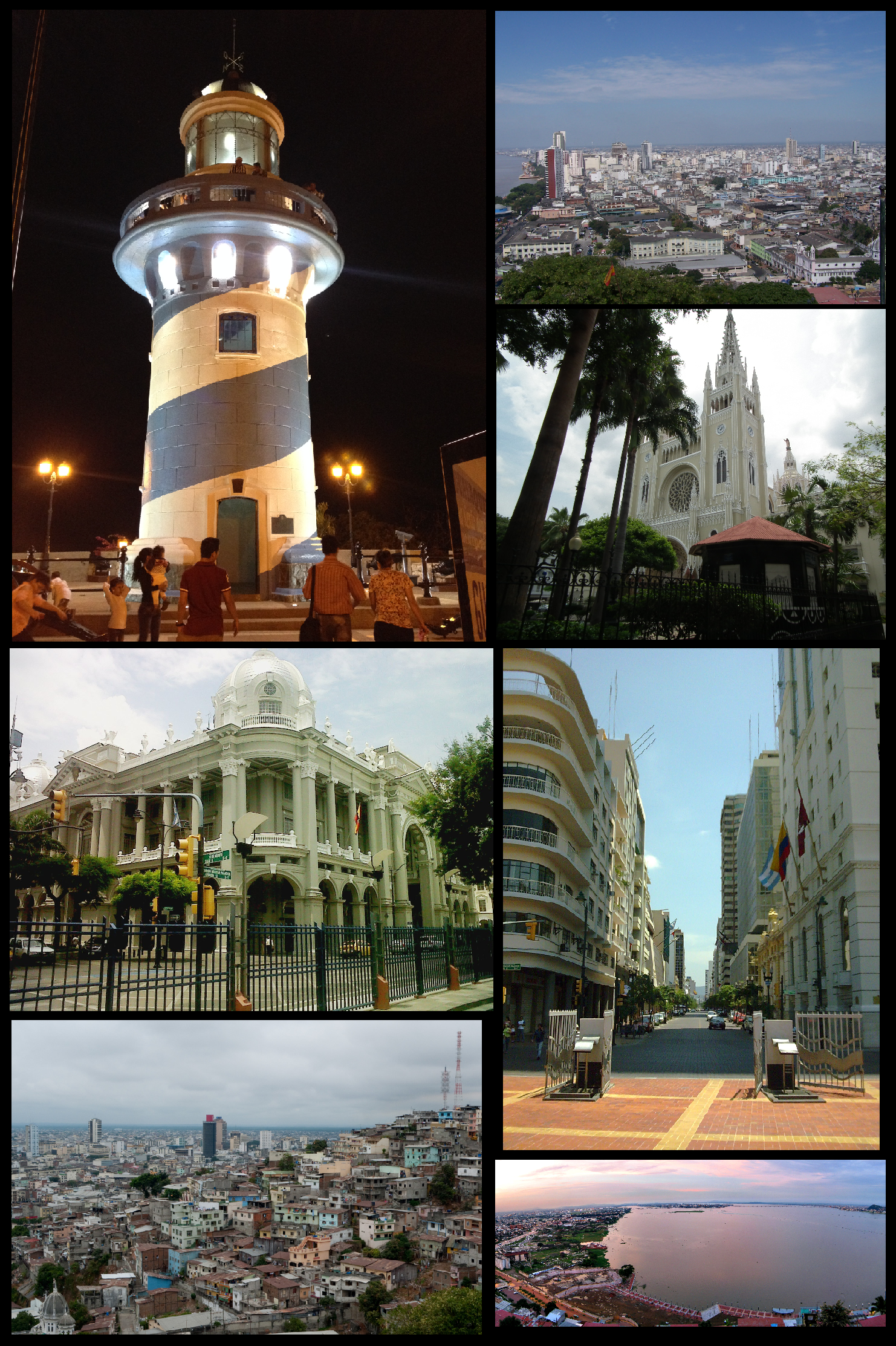 Views of the city of Guayaquil in Republic of Ecuador.